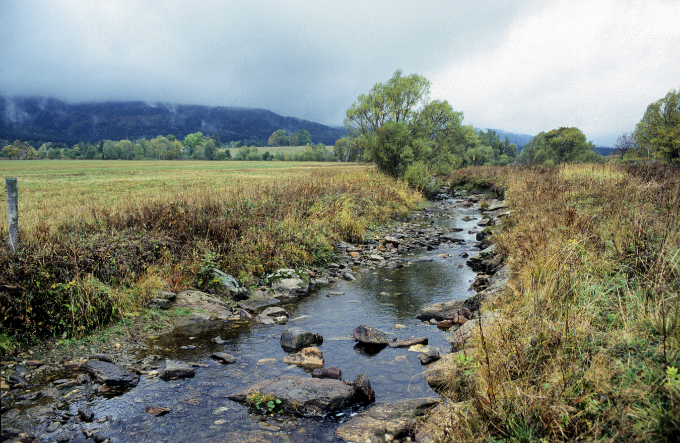 Dzika Orlica river valley in Lasówka, Central Sudetes Mts. Dzika Orlica is a Polish-Czech national border between villages Lasówka and Lesica. On the left main ridge of Orlicke Mts. (in the fog).